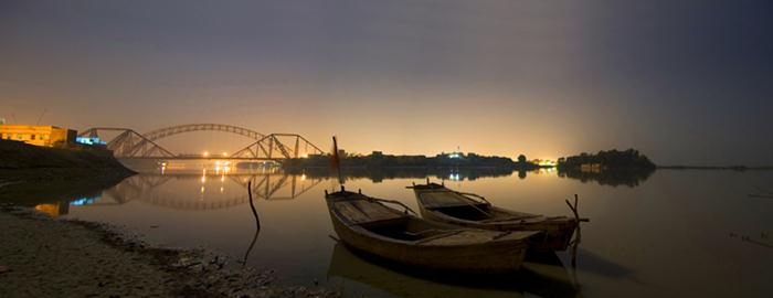 A view of Lansdowne Bridge over River Indus zcxeo This is a photo of a monument in Pakistan identified as the SD-55.5